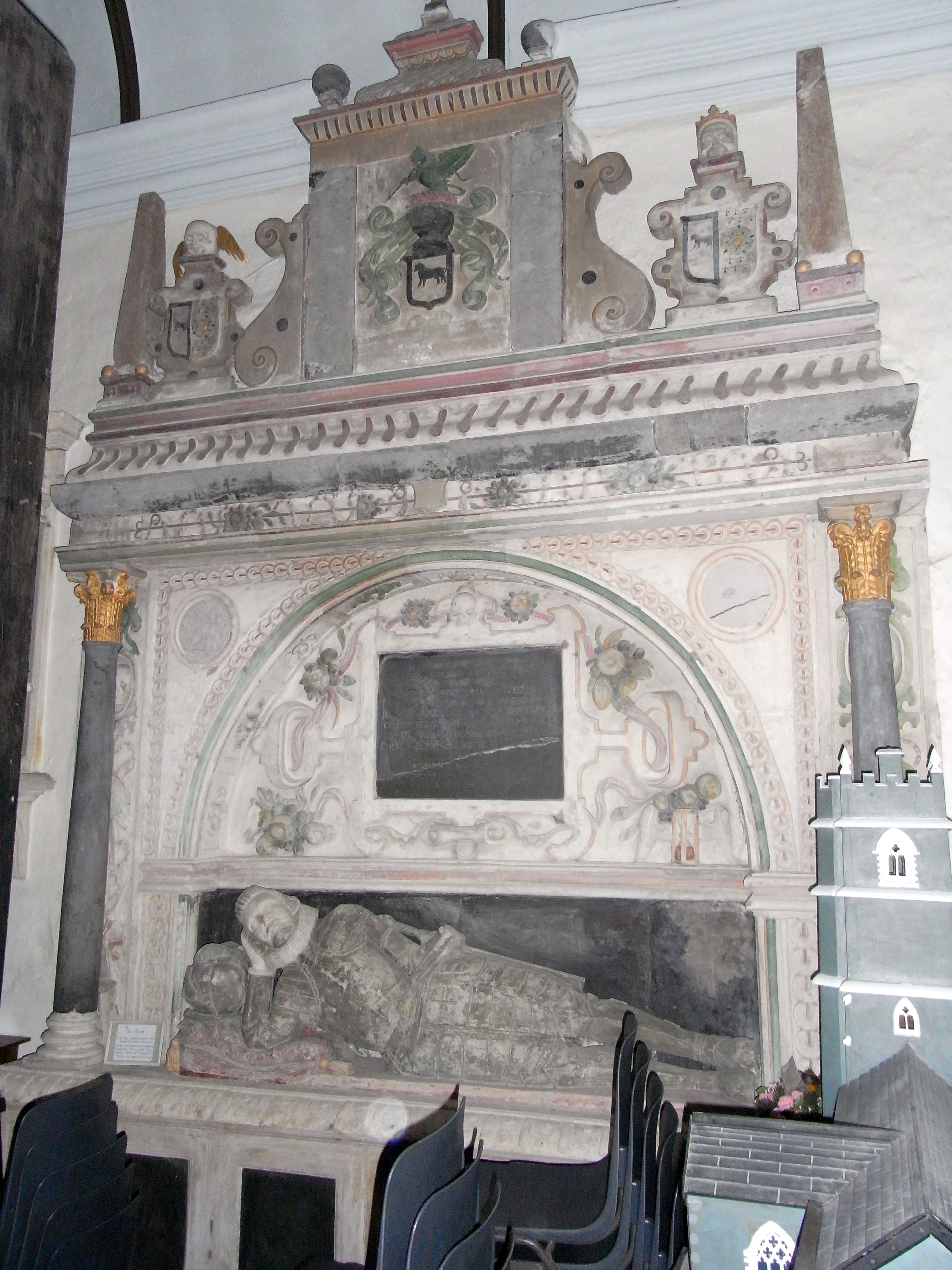 Monument and effigy in All Hallows Church, Woolfardisworthy, North Devon, of Richard Cole (1568- 19 April 1614) of Slade (Vivian, Lt.Col. J.L., (Ed.) The Visitations of the County of Devon: Comprising the Heralds' Visitations of 1531, 1564 & 1620, Exeter, 1895, p.214, pedigree of "Cole of Slade") in the parish of Cornwood, Devon, and of Bokish in the parish of Woolfardisworthy, North Devon. Sorry about the plastic chairs and other junk, this is unfortunately very standard form in Devonshire Churches